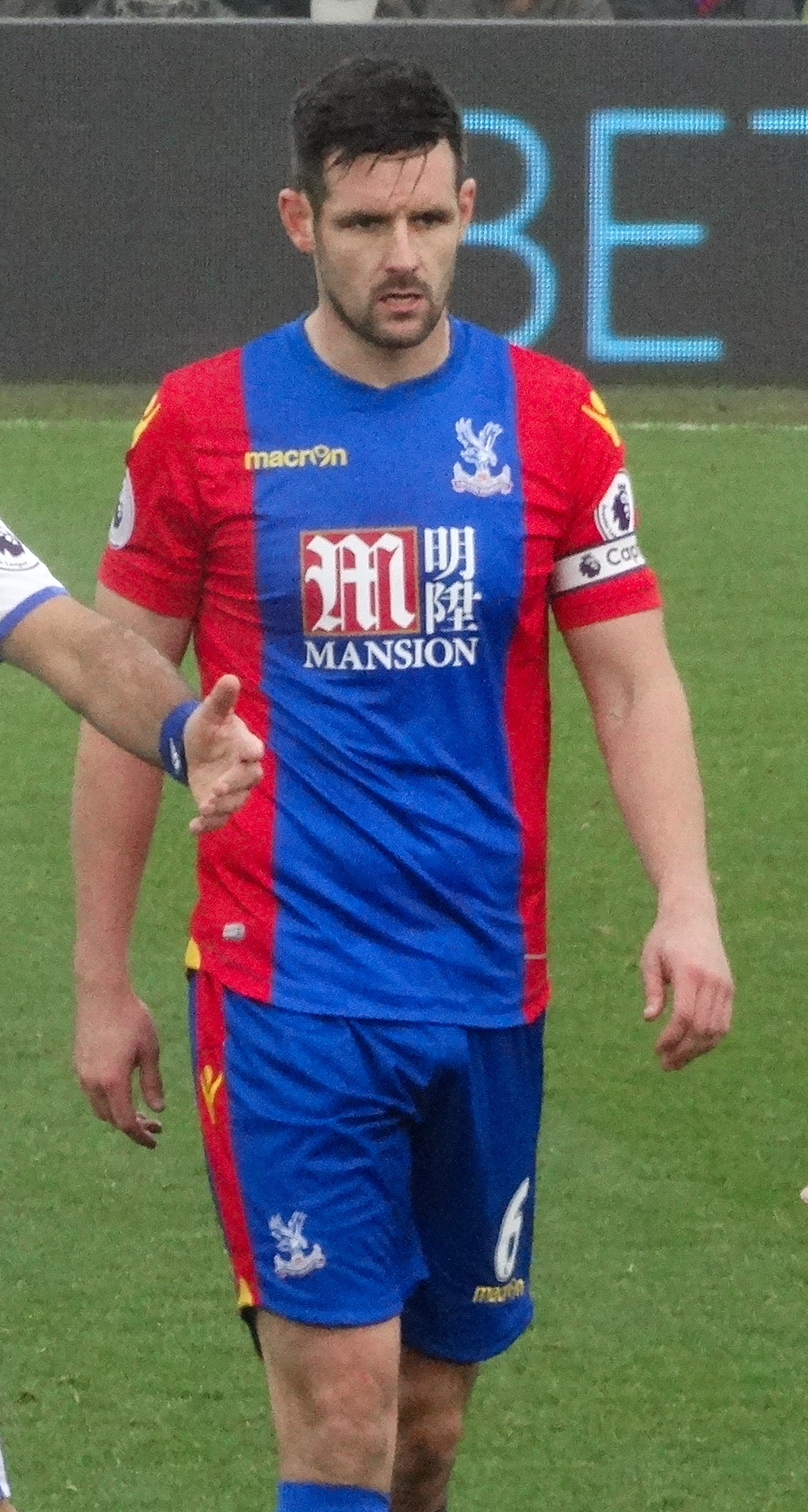 Scott Dann playing for Crystal Palace against Chelsea at Selhurst Park, London on 17 December 2016